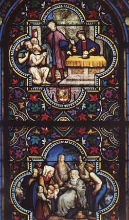 Stained glass window of the Marquess of La Rochejaquelein in the Clisson Castle, Boismé, France.